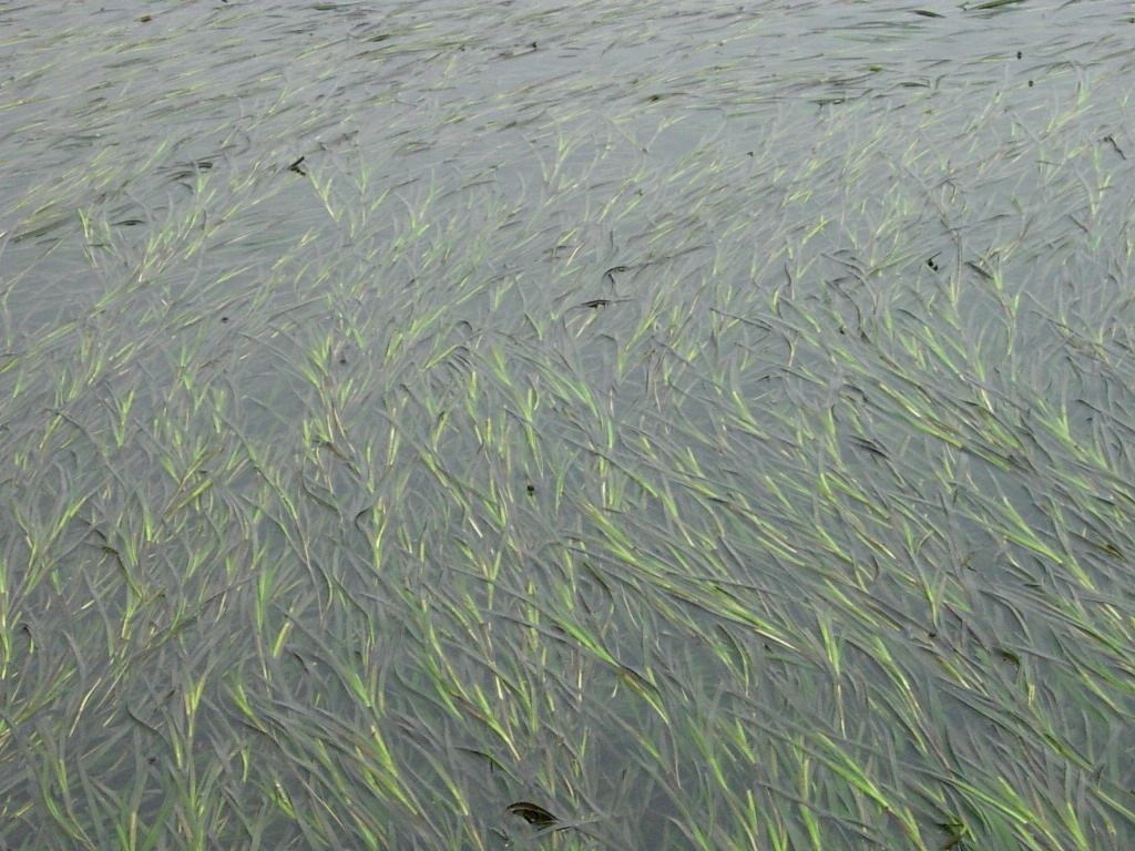 Yu Ito, Hye Ryun Na, Seung Cho Lee, Sang Hwan Park, Hee Bak Choi and Hong-Keun Choi (2007) A brief survey of Korean Aquatic Plants. Bulletin of Water Plant Society, Japan 87: 19-28.